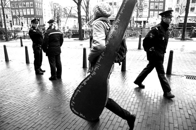 Amsterdam, Holland. Photo by Gary Mark Smith.